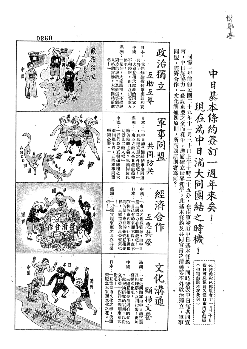 Propaganda leaflet of the first anniversary of Sino-Japanese Basic Treaty.